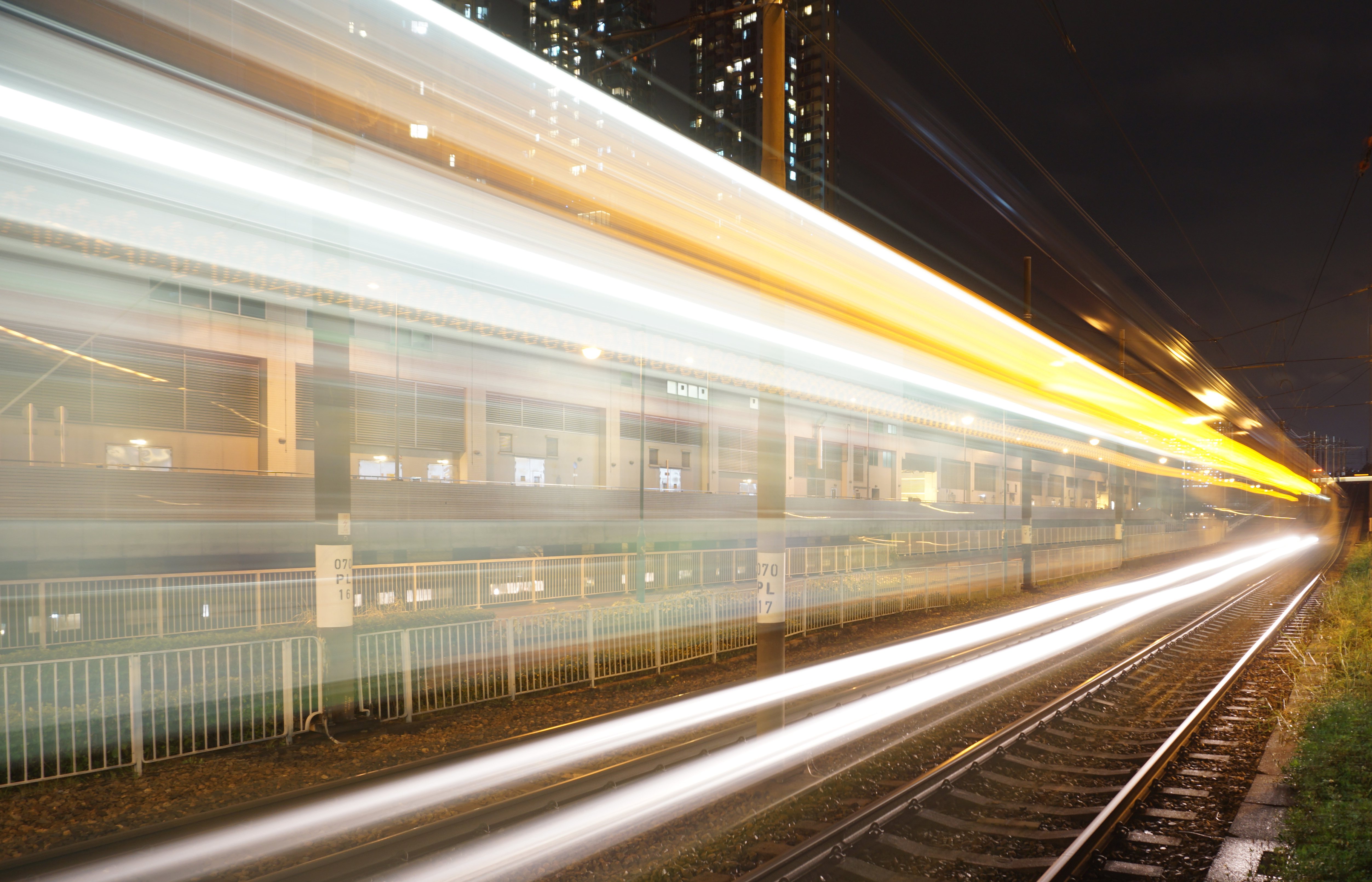 Light Rail in Hong Kong.